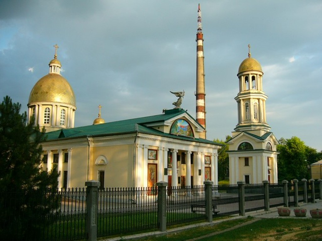 Orthodox Cathedral of St. Andrew in Zaporozhe